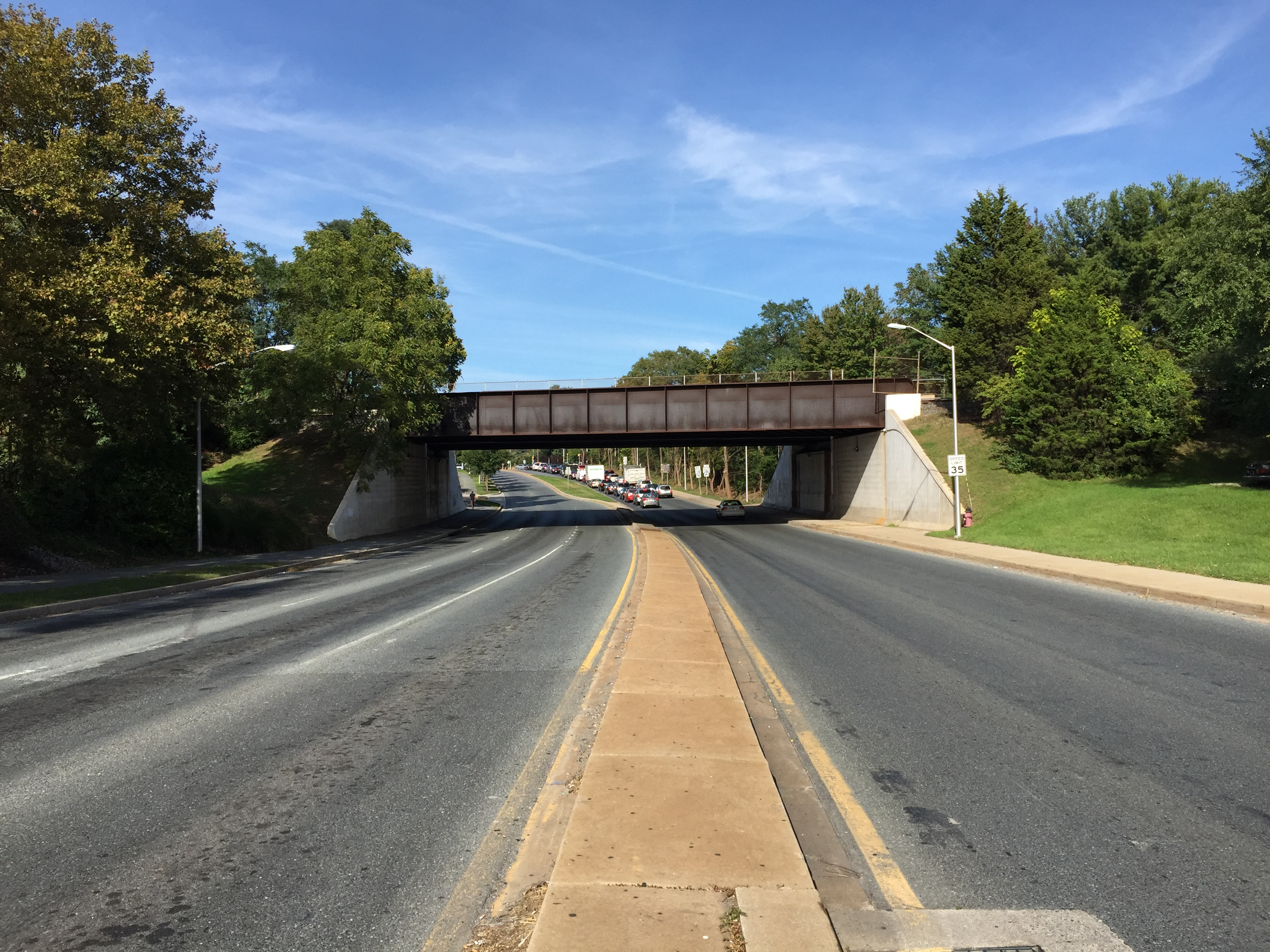 View north along Maryland State Route 911 (First Street) at Maryland State Route 355 (Rockville Pike) in Rockville, Montgomery County, Maryland